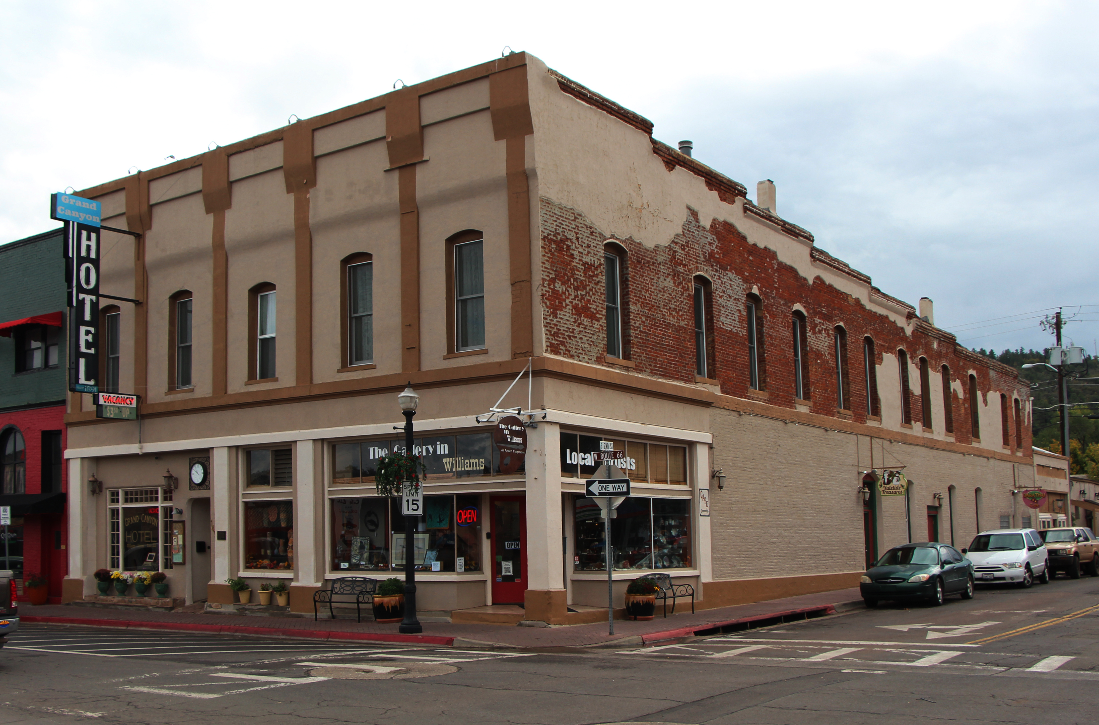 Grand Canyon Hotel, 145 W. Route 66, Williams, AZ